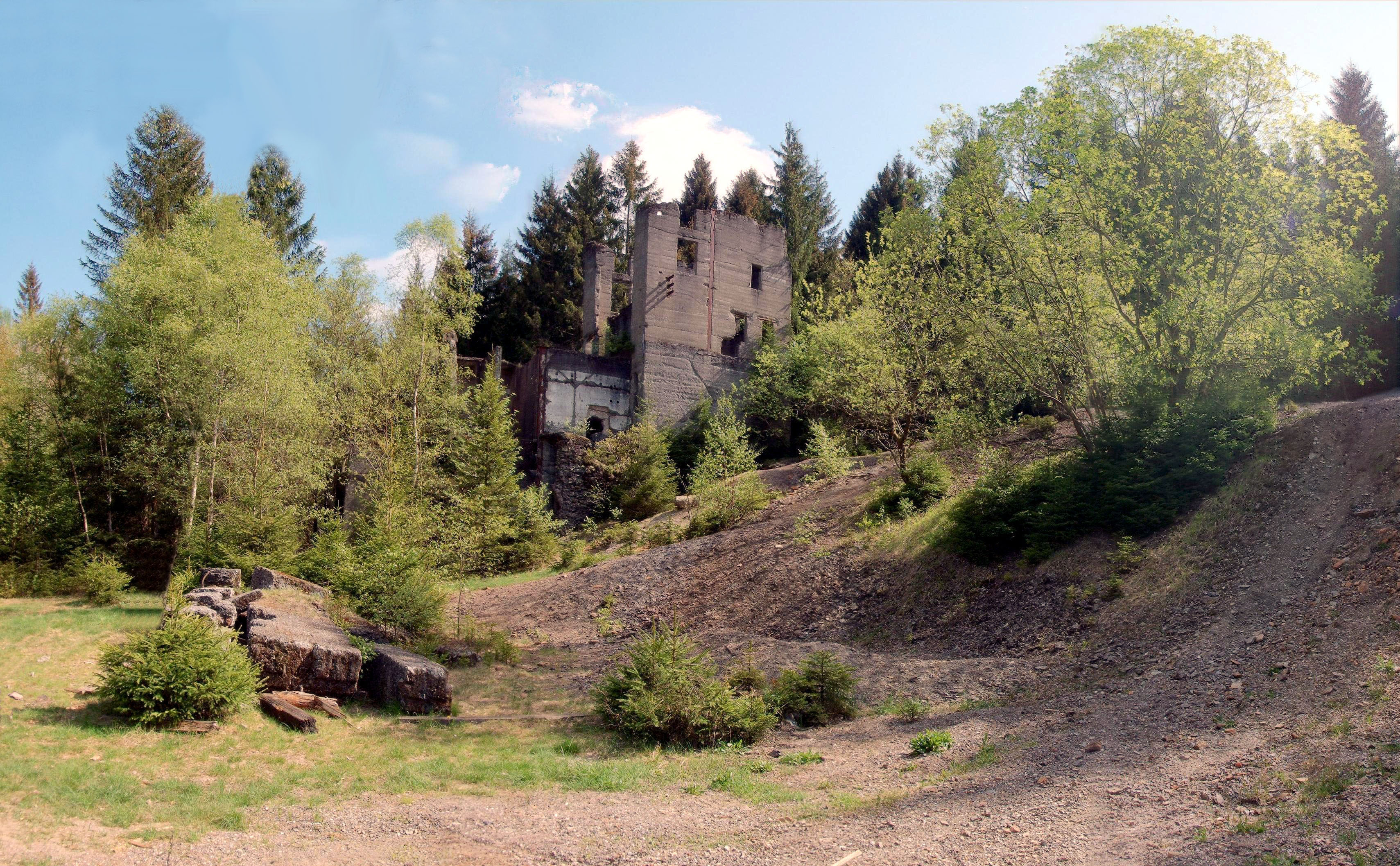 Ruins of the Peterszeche near Burbach (Siegerland) in Germany.